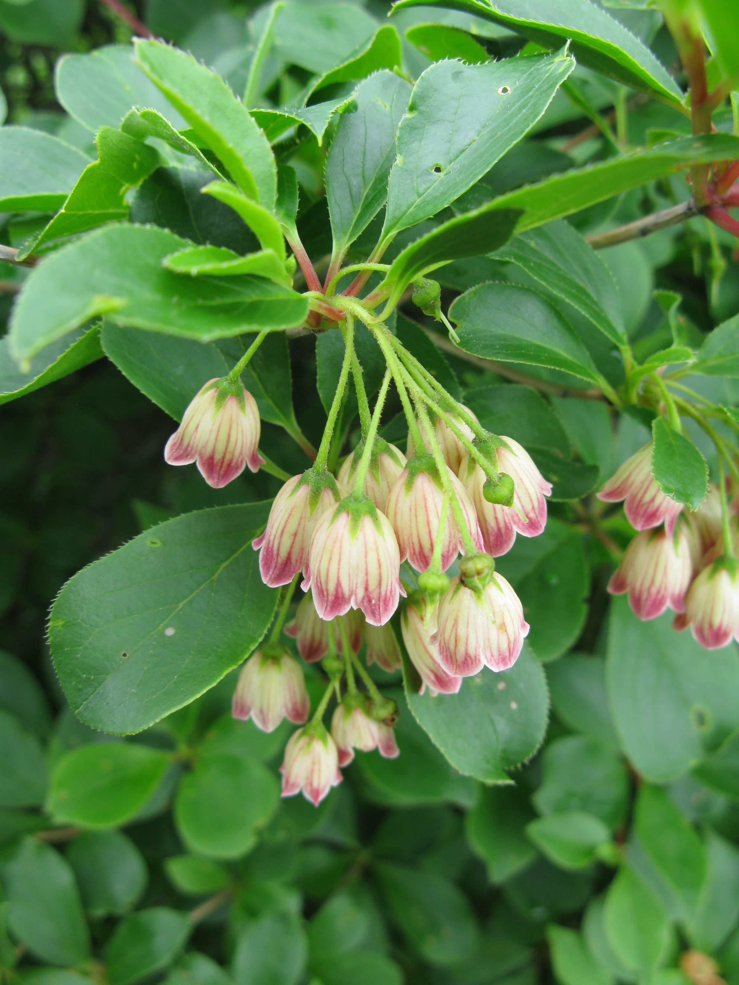 Enkianthus campanulatus, Aizu area, Fukushima pref., Japan